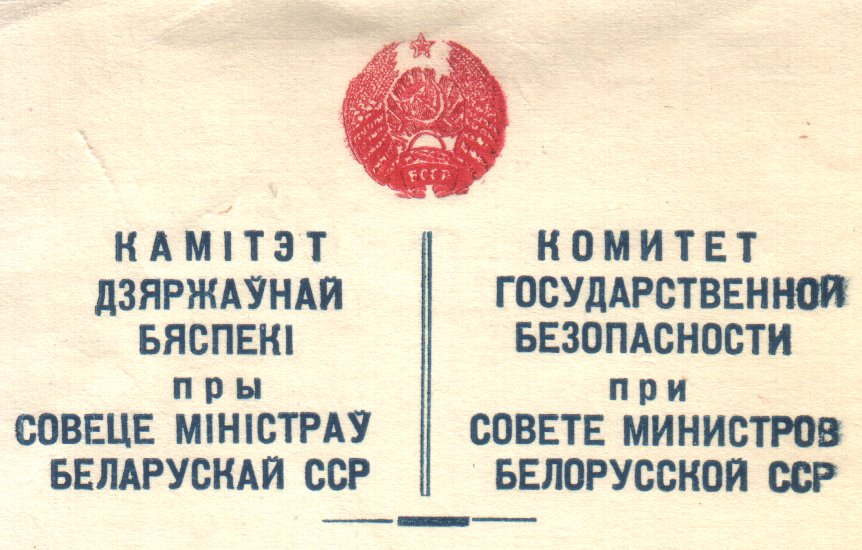 a fragment of an official KGB page, presumably from 1973